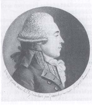 Carel de Vos van Steenwijk (1759-1830) dutch statesman